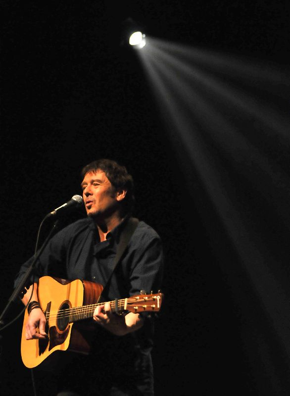 Théâtre Louis Vermeersch at Samuel-de-Champlain, Saint John, NB. Photo by Marc Gosselin